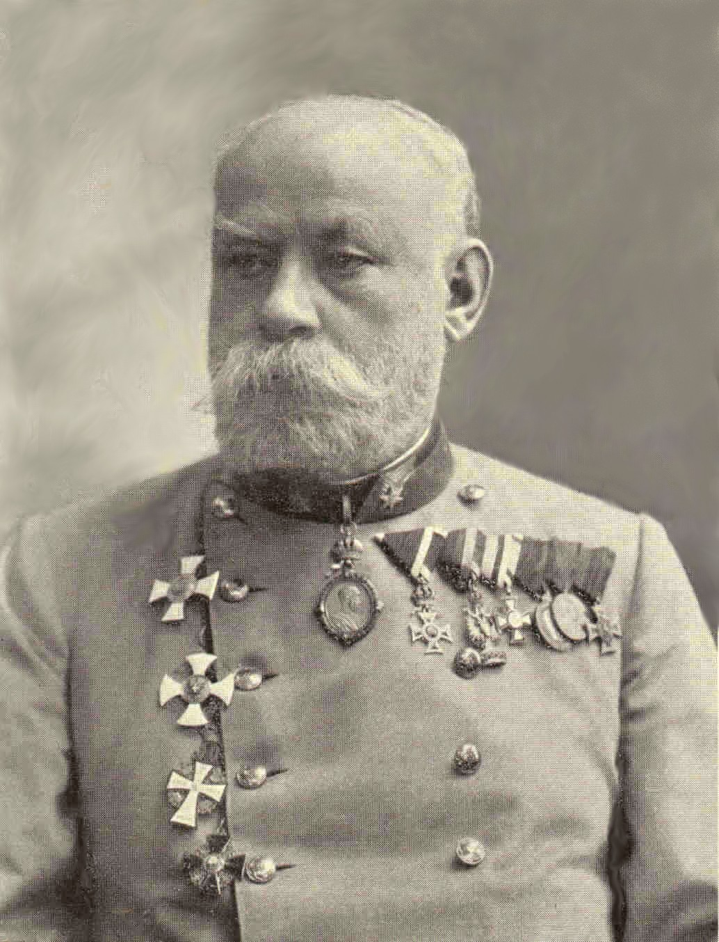 Czech surveyor and geophysicist, major-general of K. und K. Austro-Ungarn army and one of well-known representatives of Military Geographic Institute in Vienna (1862-1905)